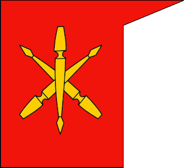 Banner of Jelita Coat of Arms